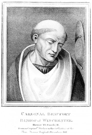 Henry Beaufort